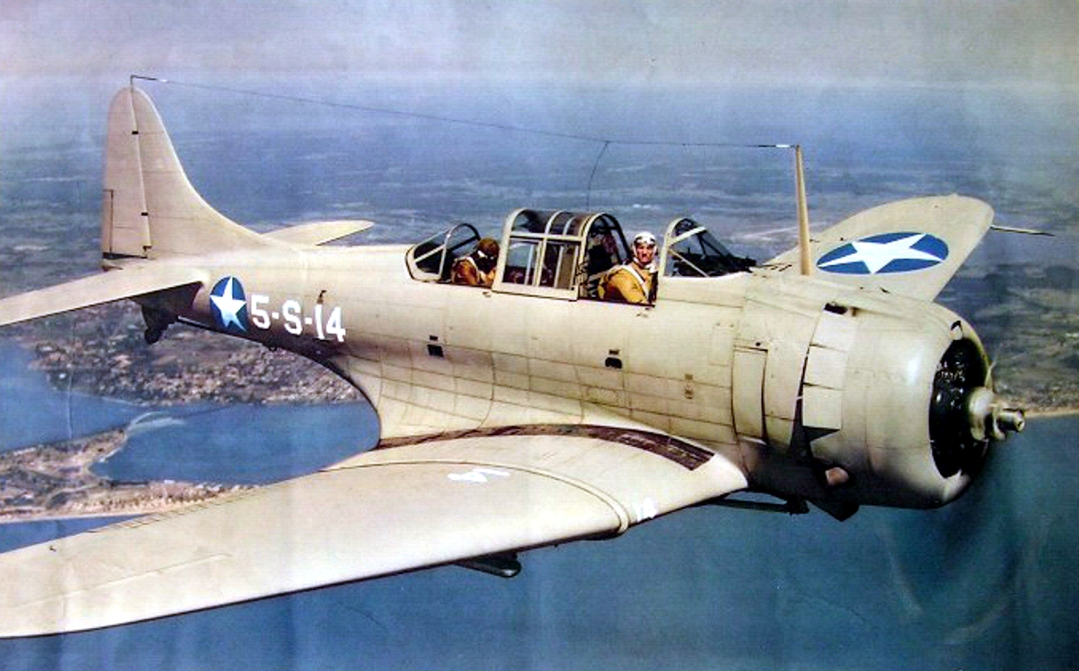 A U.S. Navy Douglas SBD-3 Dauntless assigned to Scouting Squadron Five (VS-5) in flight. Note the overall light gray paint scheme with white lettering. VS-5 traced its origins to 1937, and all of their prewar carrier duty occurred aboard the aircraft carrier USS Yorktown (CV-5). Receiving SBD-3 aircraft in 1941, the squadron participated in the 1 February 1942 raid against targets in the Marshall and Gilbert Islands, and in the strike against Lae and Salamaua the following month. On 7-8 May they flew strikes against Japanese carriers during the epic Battle of the Coral Sea.